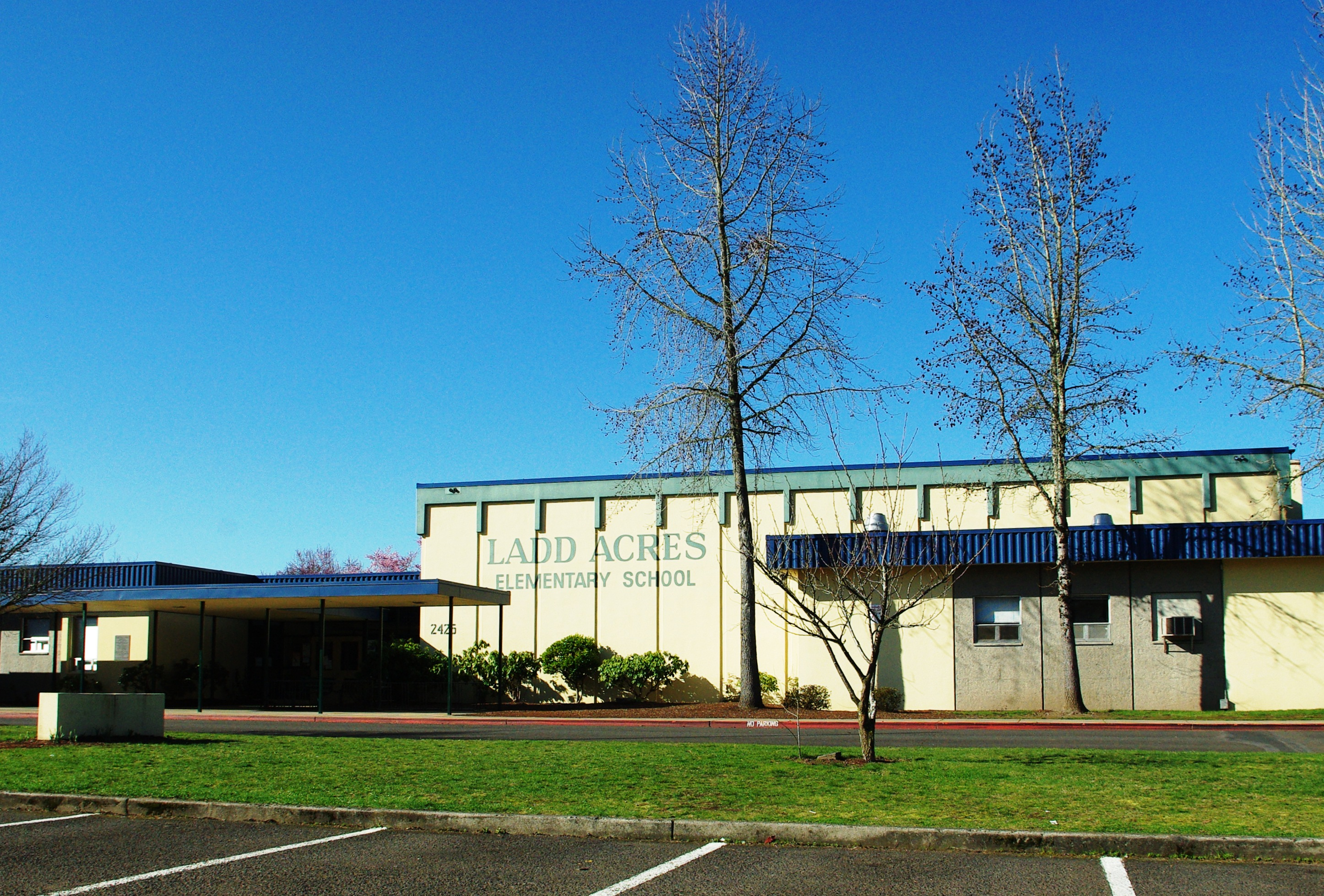 Ladd Acres Elementary School in Hillsboro, Oregon. Part of the Hillsboro School District.